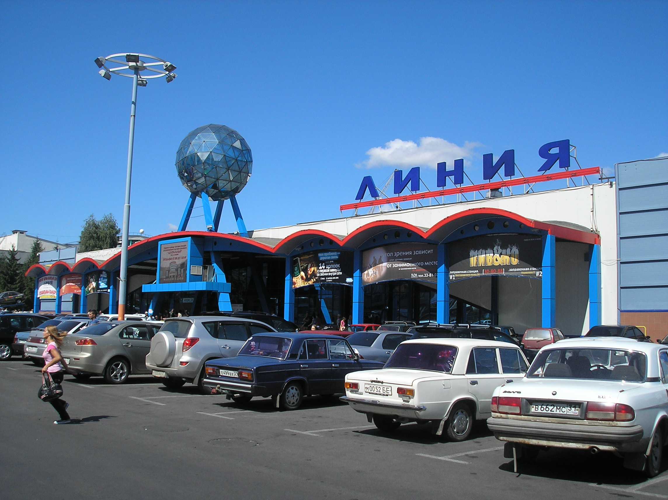 Гипермаркет Линия. г. Белгород